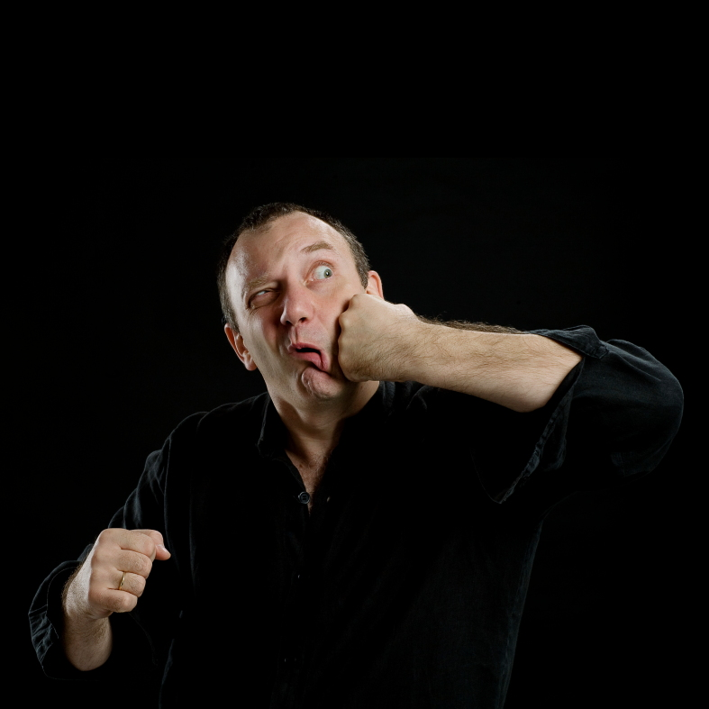 Marko Stojanović — Serbian actor, mime artist, cultural and humanitarian activist Српски (ћирилица): Марко Стојановић — српски глумац, пантомимичар, културни и хуманитарни радник Srpski (latinica): Marko Stojanović — srpski glumac, pantomimičar, kulturni i humanitarni radnik